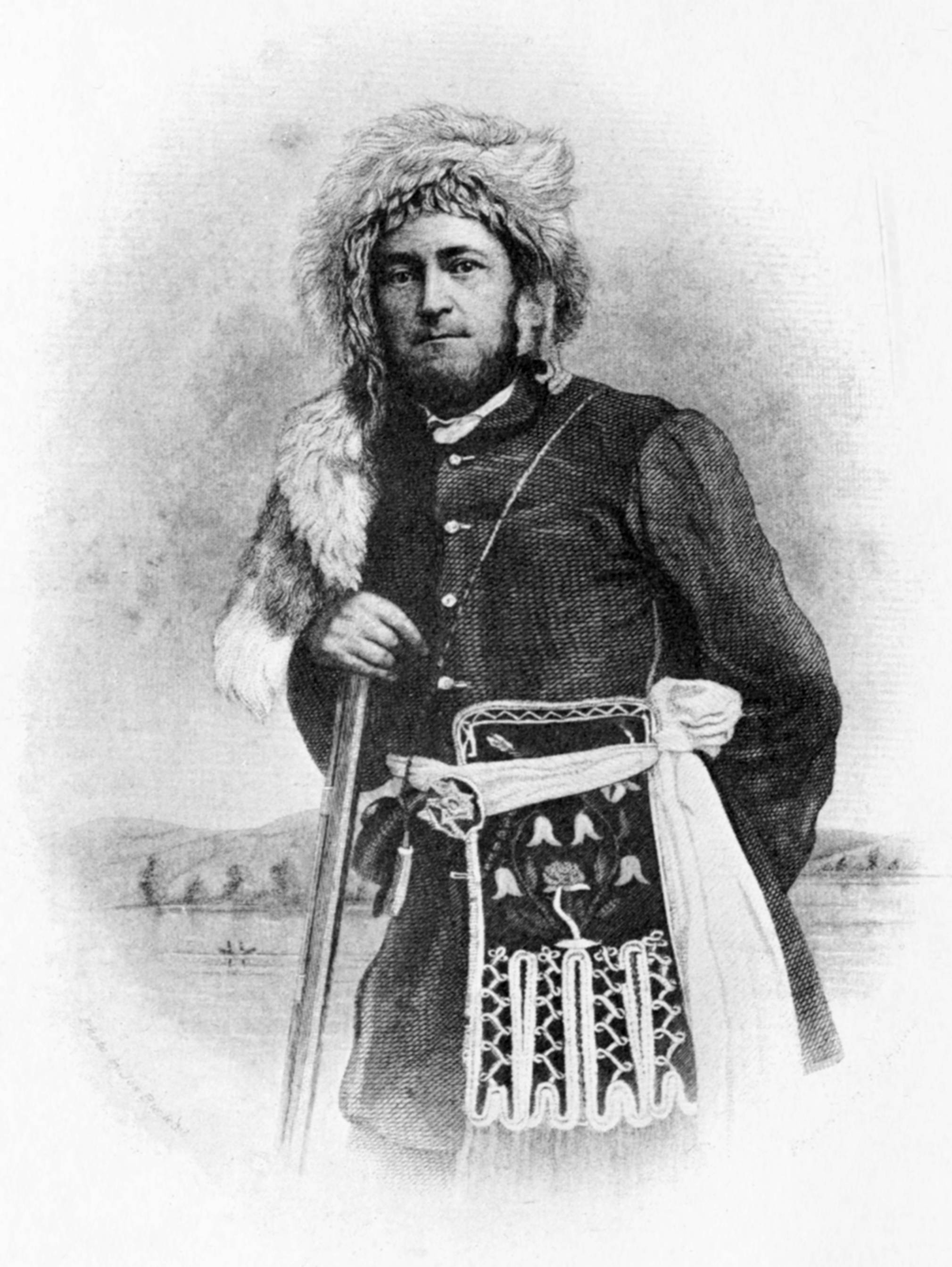 "Joseph L. Meek," black and white photographic portrait by Joseph Buchtel & John Chester Buttre. Engraved frontispiece to the volume entitled "The River of the West, Life and Adventure in the Rocky Mountains and Oregon," published by the Columbian Book Co., Hartford, Connecticut, 1870. Courtesy of the Yale Collection of Western Americana, Beinecke Rare Book and Manuscript Library, Yale University, New Haven, Connecticut.